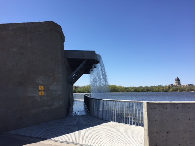 Broad Street bridge abutment waterfall, Regina, Saskatchewan